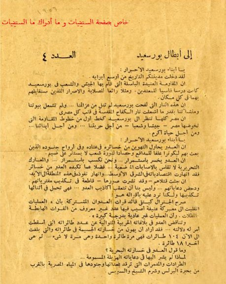 Psychological warfare in Egypt during 1956 war